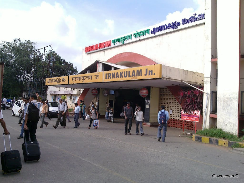 This is the Ernakulam Junction